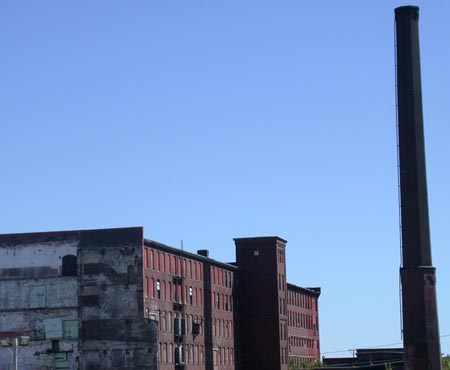 Ruins of abandoned mill along the Merrimack River in Lowell (taken Sept. 20, 2004) © 2004 Matthew Trump